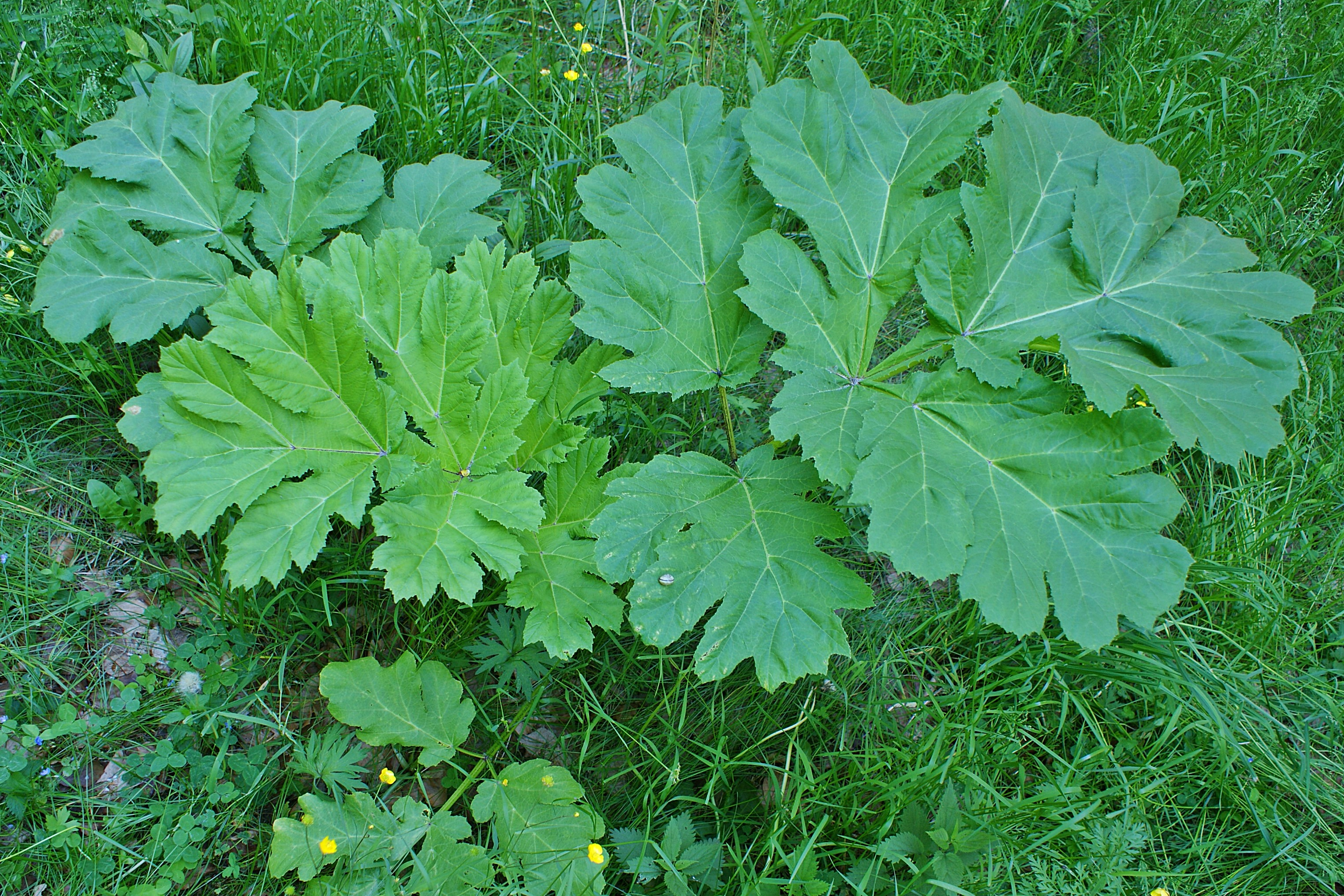 Heracleum sosnowskyi in Szczecin Podjuchy (NW Poland)